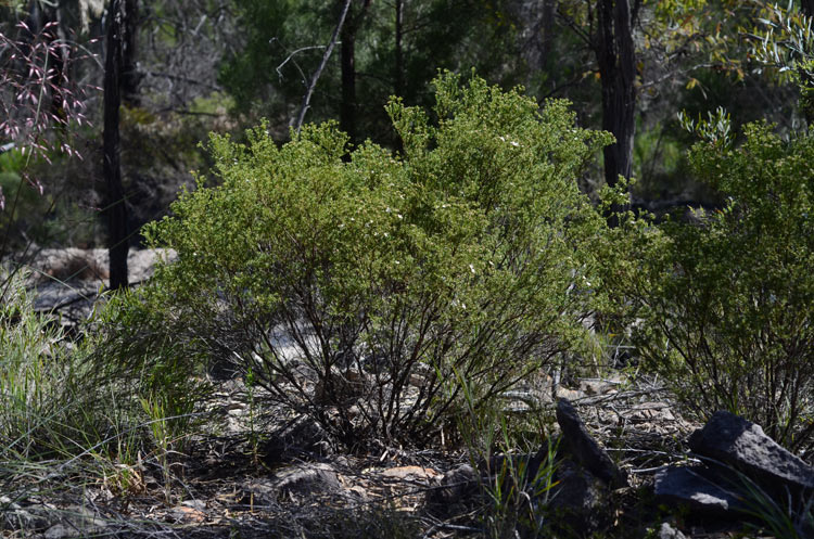 Philotheca ciliata in Carnarvon National Park, Goodliffe Section, about 150 km E of Blackall, Queensland